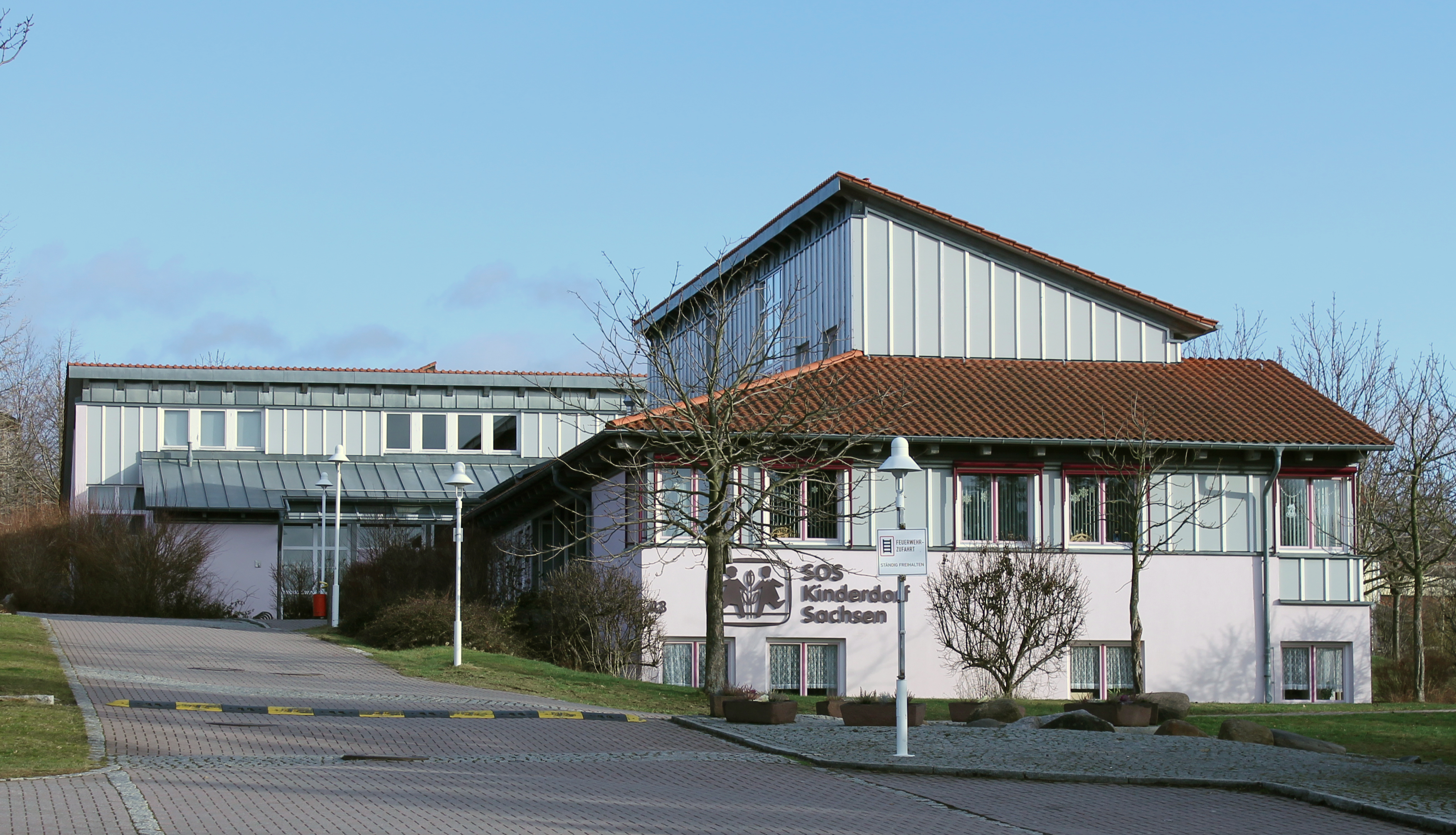 SOS Children's Villages in Oberplanitz, city of Zwickau, Saxony, Germany.